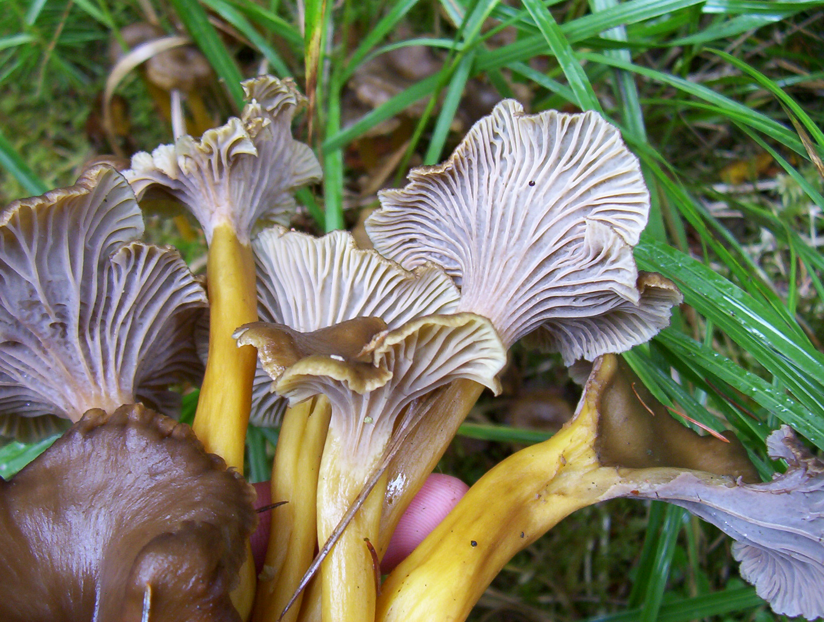 Cantharellus tubaeformis being collected in a conifer plantation in Argyll, Scotland